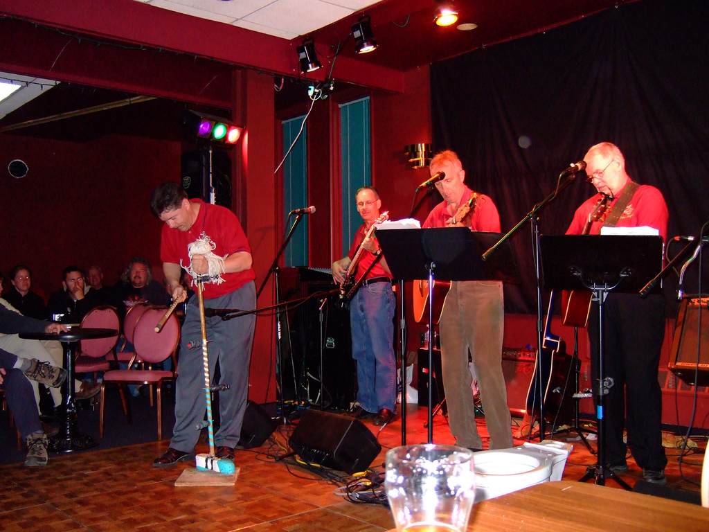 An amazing demonstration on the ugly stick, a traditional Newfoundland instrument.